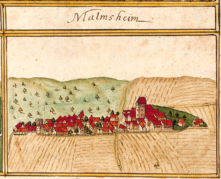 View of Malmsheim, Renningen, from the forest register books created by Andreas Kieser